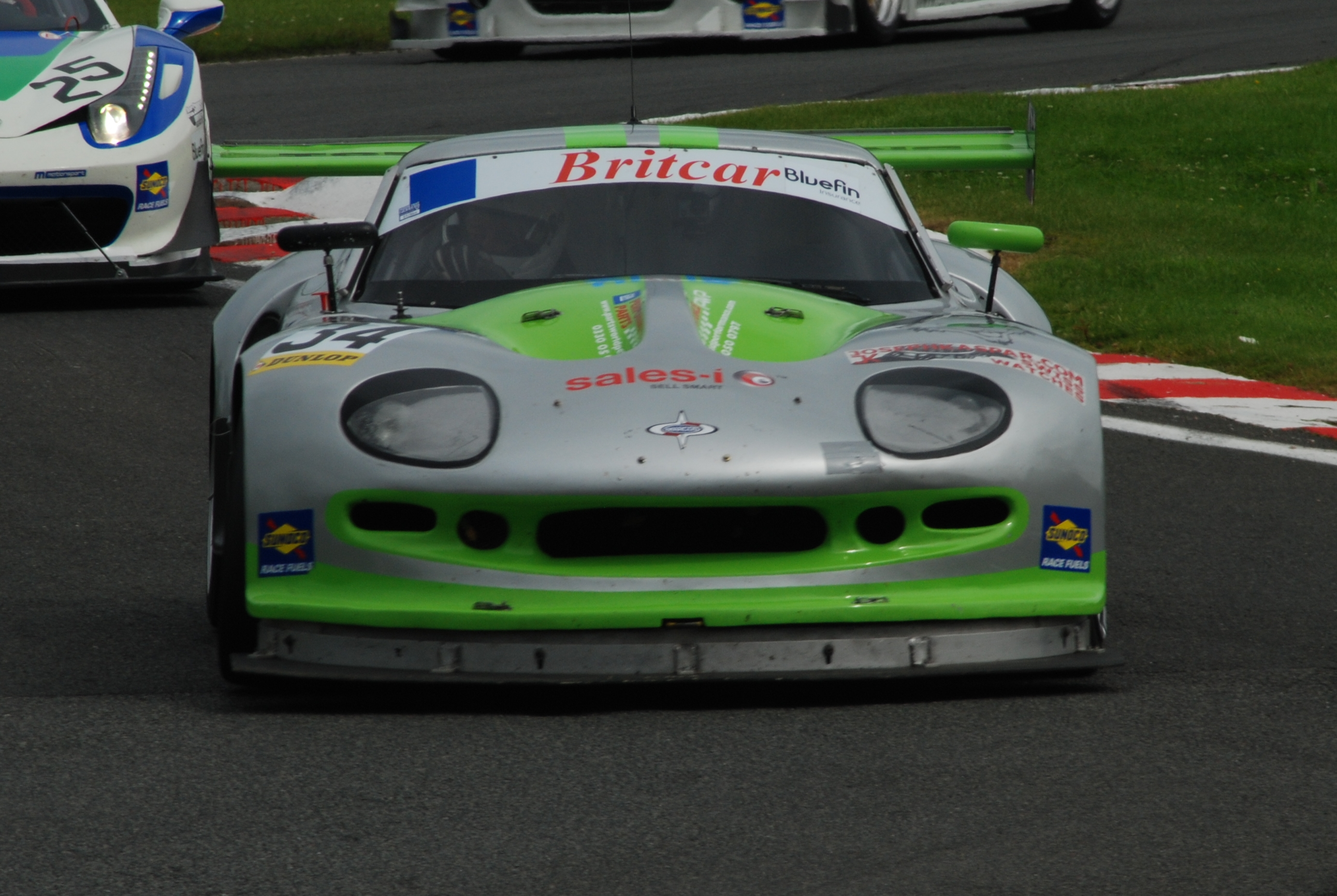 Oulton Park BRITCAR